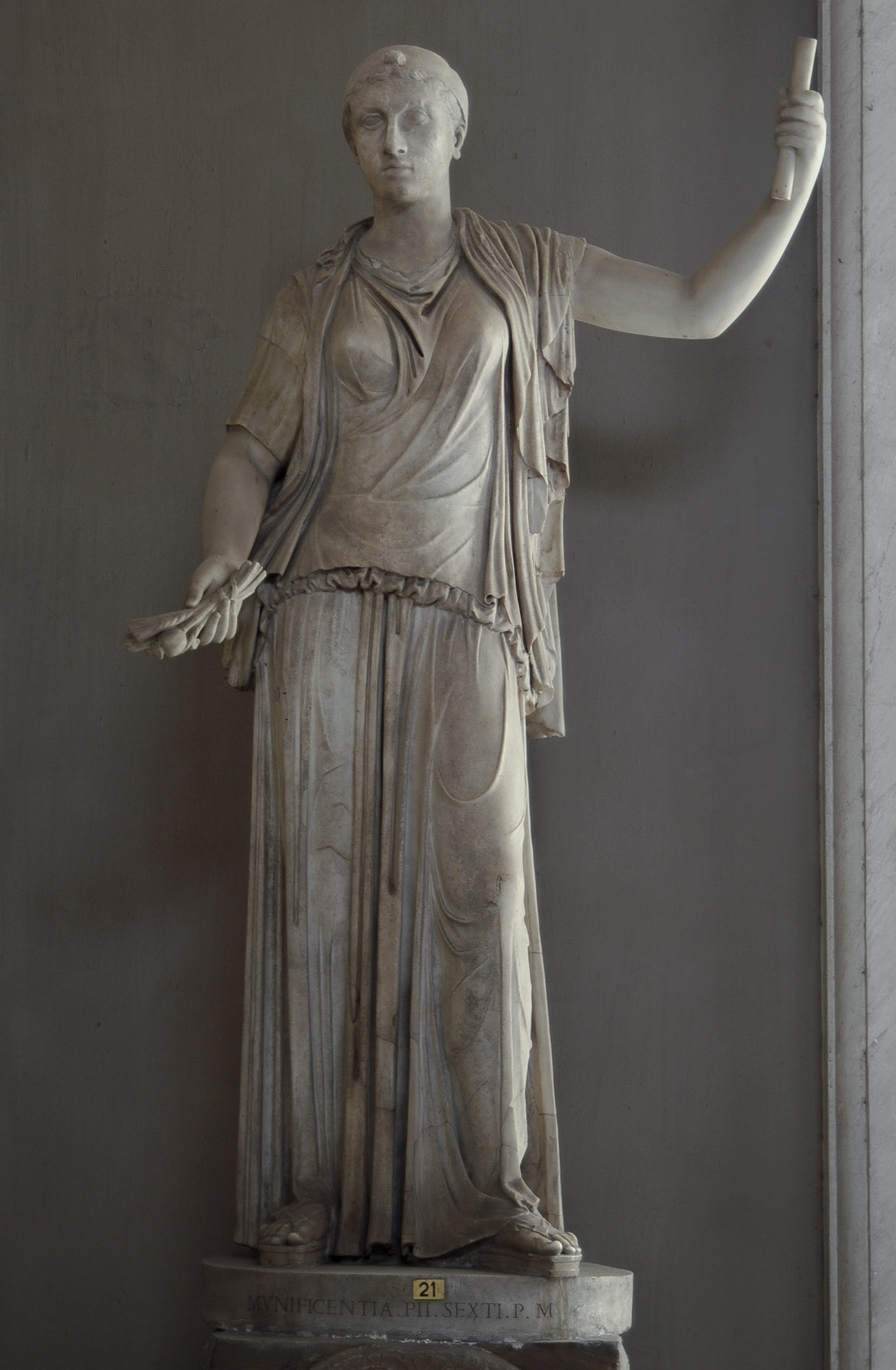 A marble statue presumably portraying Cleopatra VII of Ptolemaic Egypt; the body of the statue is a Roman copy of a Greek original from the end of the 5th century BC, while the head portraying Cleopatra was a later addition. The statue, which apparently depicts Cleopatra VII, was allegedly found on the Via Cassia near the so-called "Tomba di Nerone." Its identification as Cleopatra VII, by virtue of the facial features, "melon" hairstyle, Hellenistic royal diadem, and similarity to her coinage portraits minted during her reign is outlined in the following sources: * G. Lippold. Die Skulpturen des Vaticanischen Museums. Band III 1, Text. Walter de Gruyter, Berlin/Leipzig, 1936. P. 169—171, cat. no. 567. * Curtius, L. "Ikonographische Beitrage zum Portrar der romischen Republik und der Julisch-Claudischen Familie." RM 48 (1933): 182-243. 184 ff. Abb. 3 Taf. 25—27. * Raia, Ann R.; Sebesta, Judith Lynn (September 2017) The World of State[1], College of New Rochelle Inv. No. 179. Rome, Vatican Museums, Pius-Clementine Museum. Photo by Sergey Sosnovskiy (CC BY-SA 4.0).